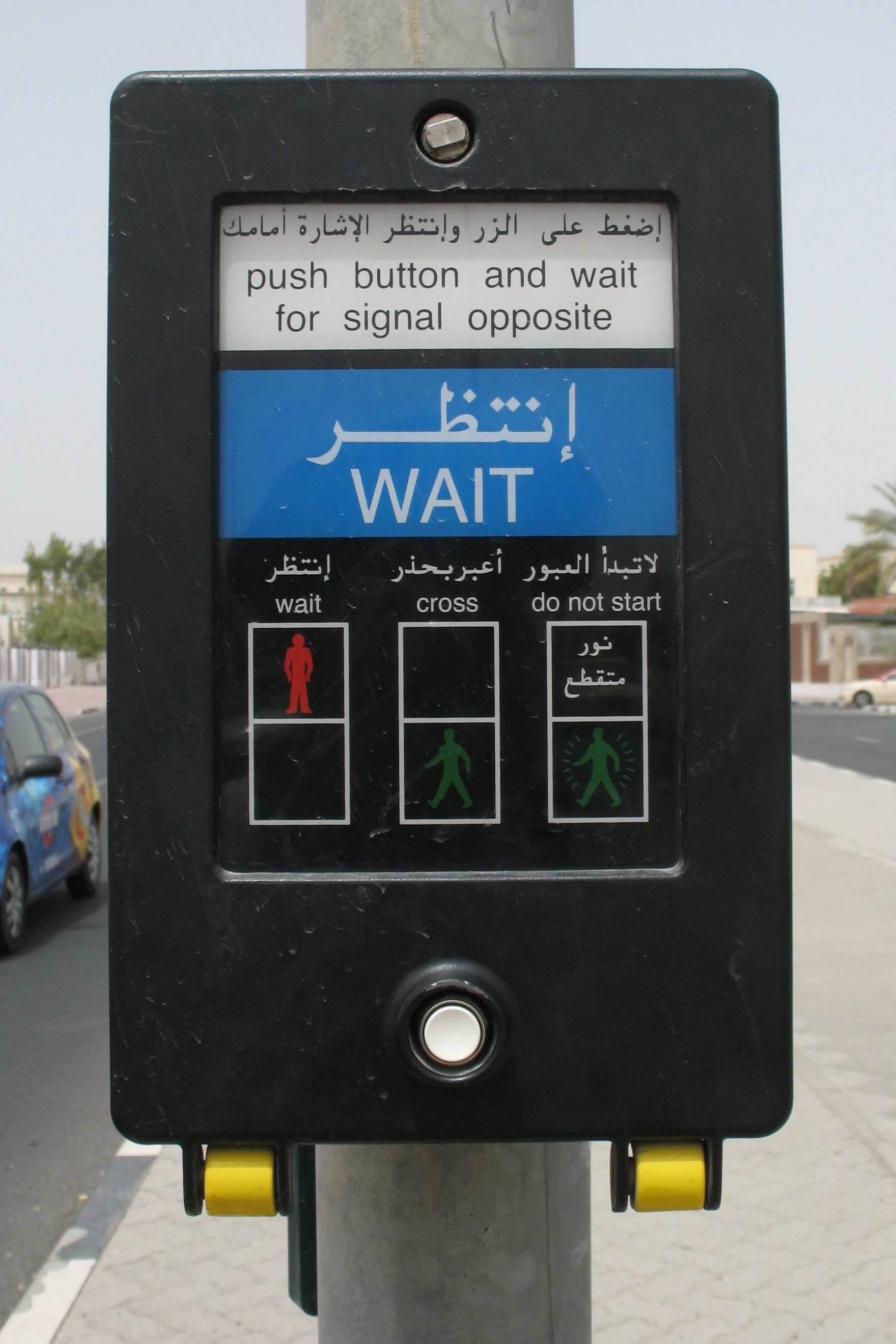 Pedestrian crossing control panel in Dubai, United Arab Emirates